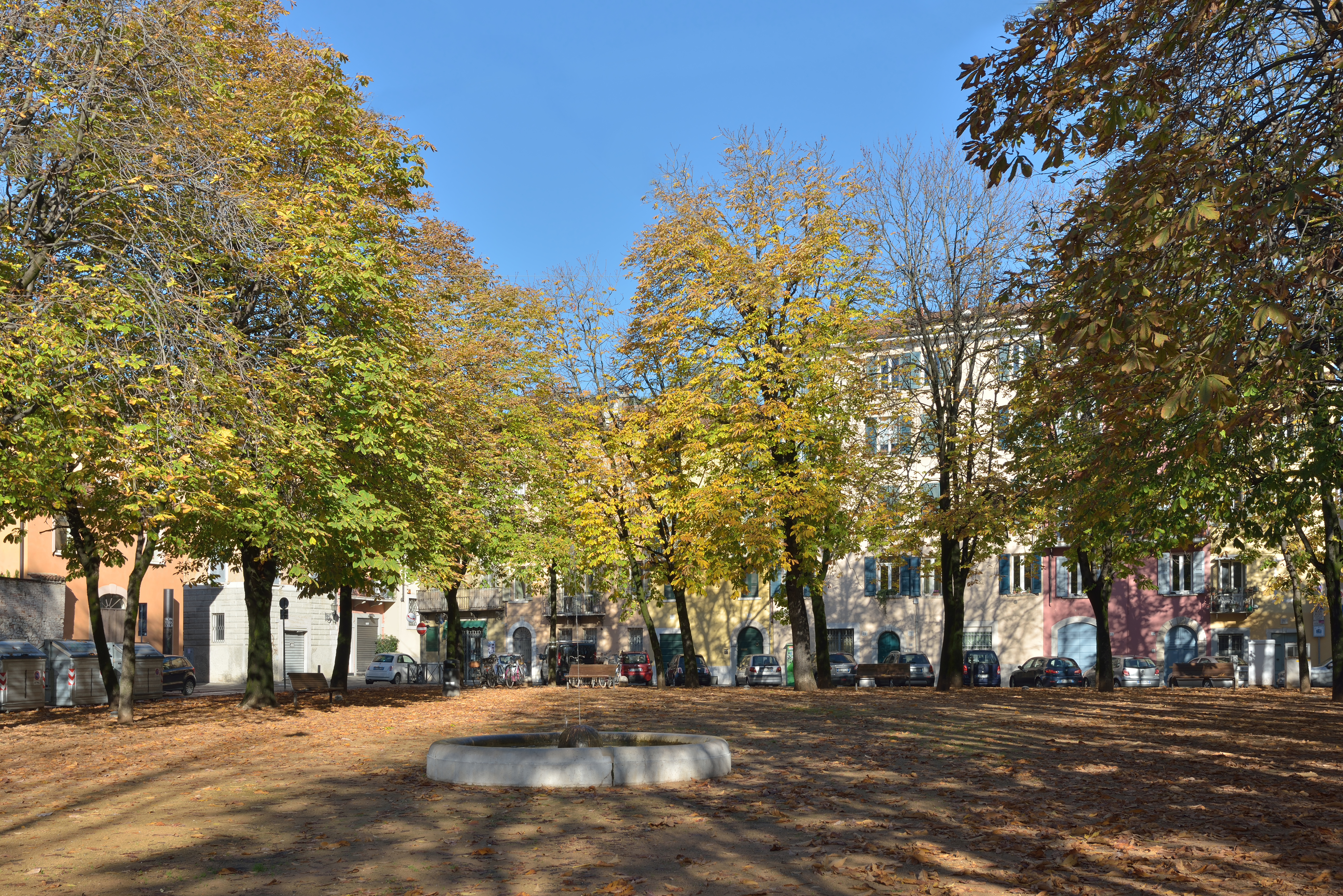 View of the Piazza Tebaldo Brusato square in Brescia